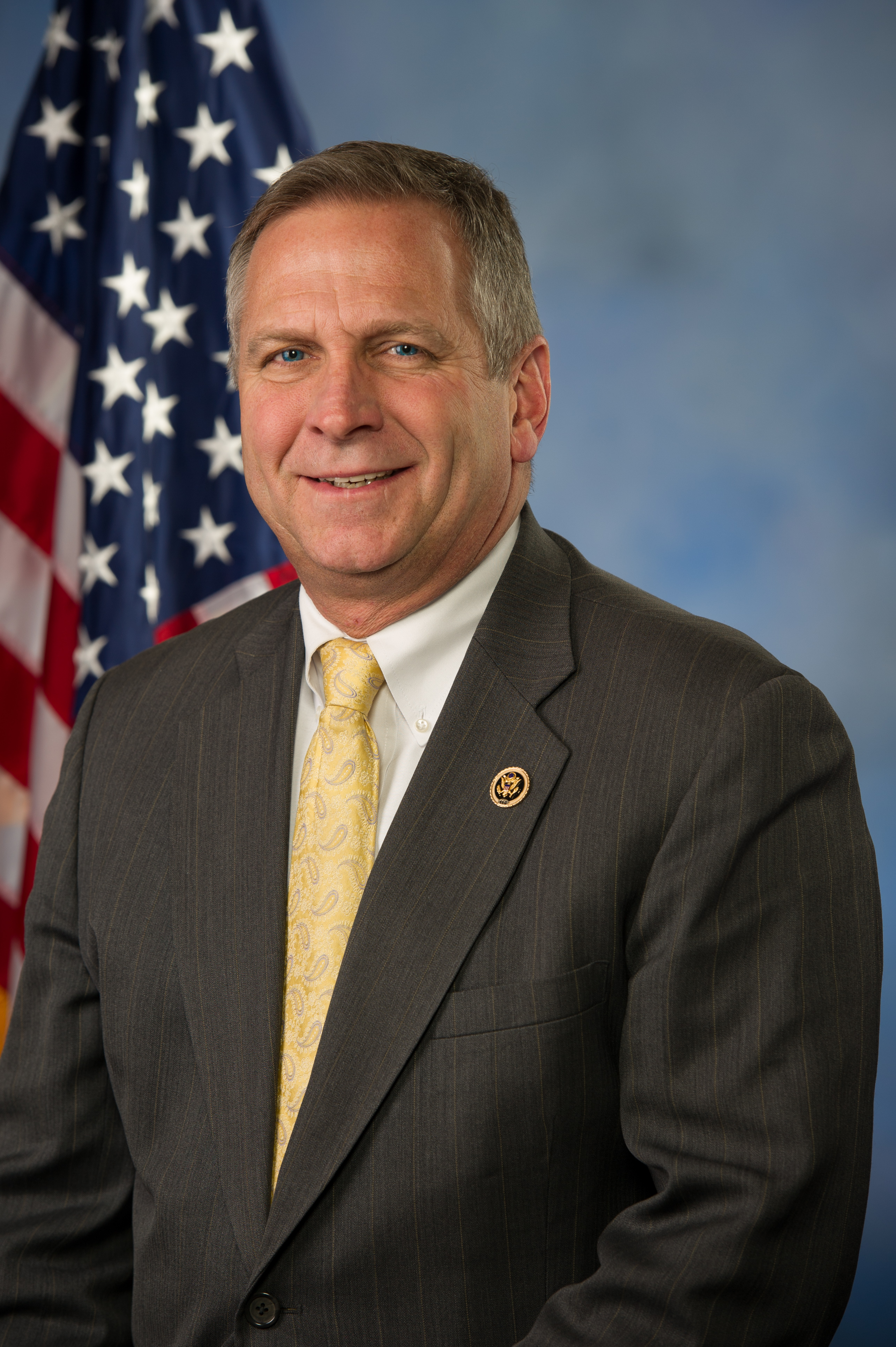 US Congressman Mike Bost